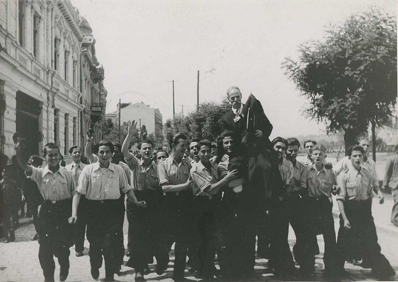 Local students in Skopie greting the IMRO revolutionary Kosta Tsipushev by his return from Sofia after the Bulgarian annexation of Vardar Macedonia in 1941.